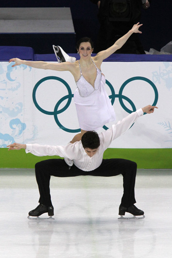 2010 Winter Olympics figure skating - Tessa Virtue and Scott Moir